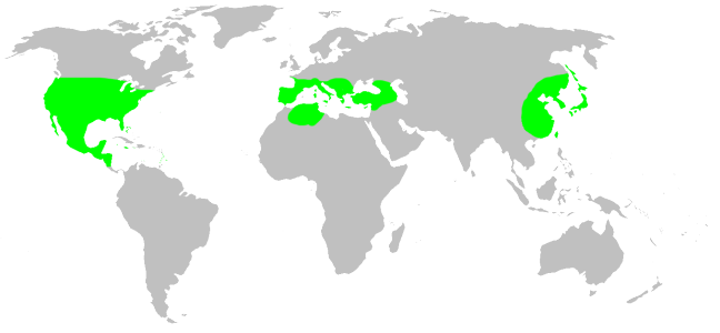 Leptonetidae habitat distribution, drawn after Platnick: World Spider Catalog 7.0. This is not a precise rendering of the distribution! If you have better information, please replace this map, or send me the info, and i will redraw it.